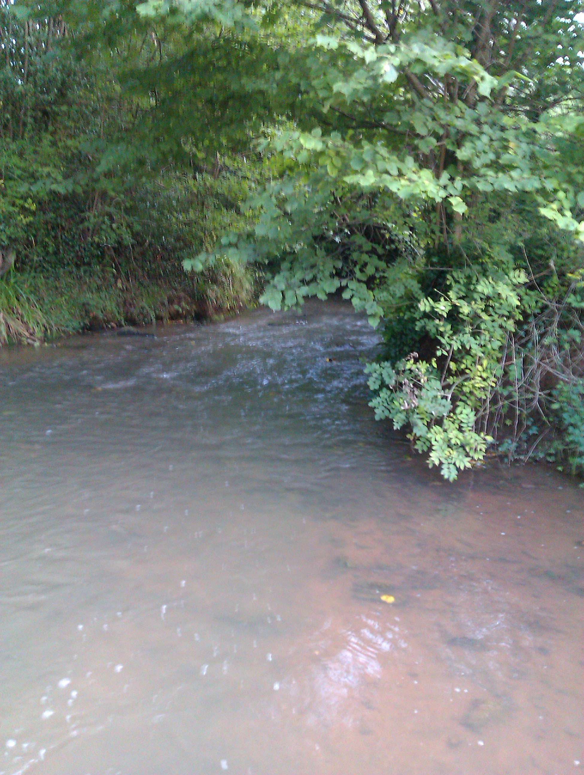 The Cadoxton river (Afon Tregatwg) is a minor river in the Vale of Glamorgan, flowing through the towns of Dinas Powys and Barry